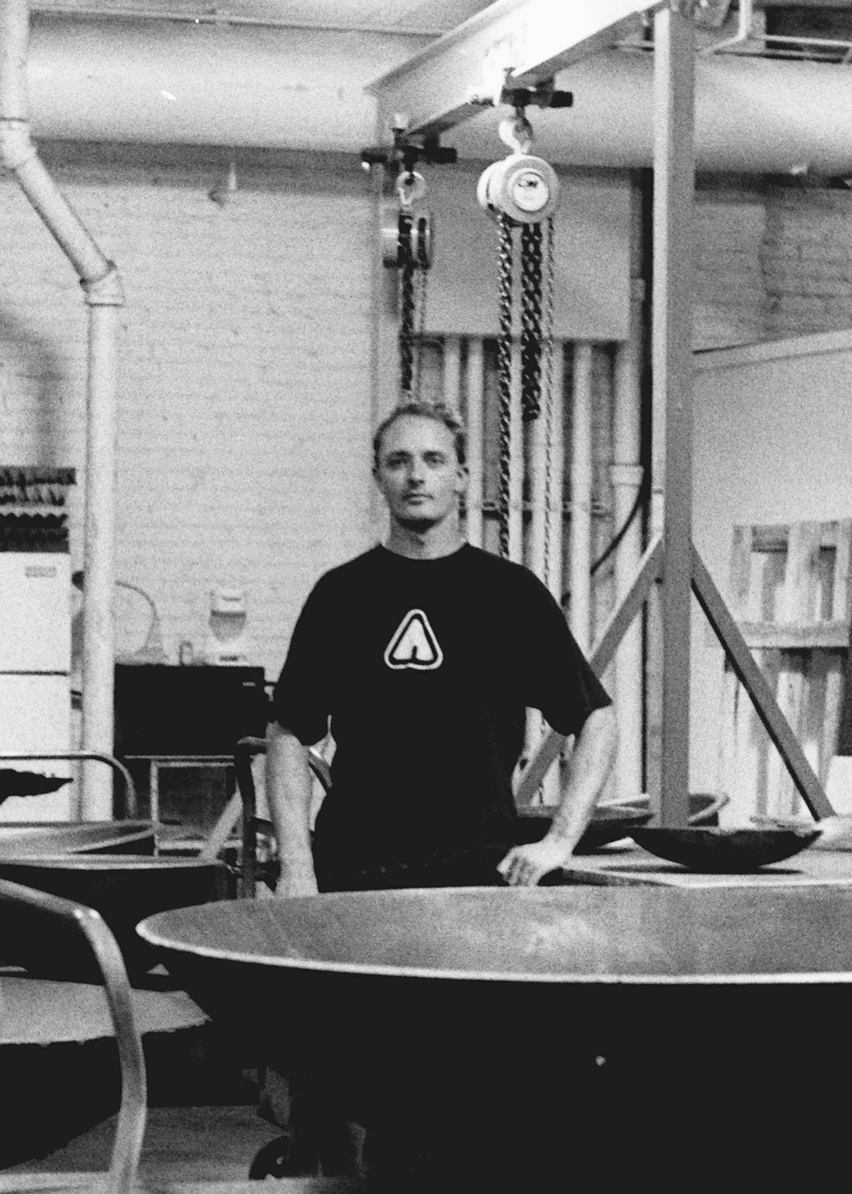 Eric Tillinghast